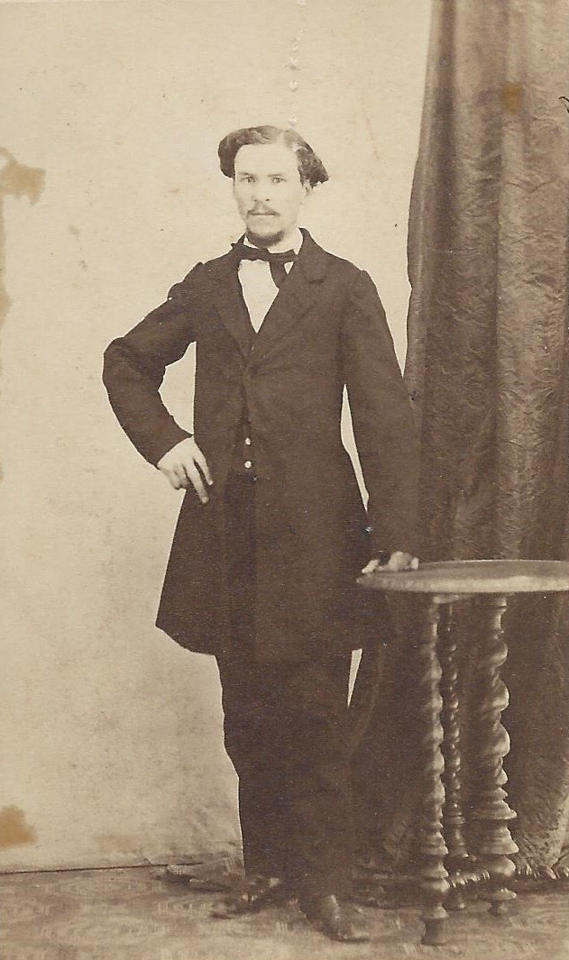 Portrait of Lemuel Everett Wilmarth circa 1860.